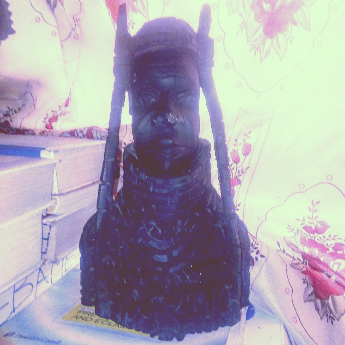 Picture showing the wooden sculpture of Oba Ewuare the Great. One of the warrior-kings of Benin Kingdom that greatly expanded it. This is an image from Nigeria